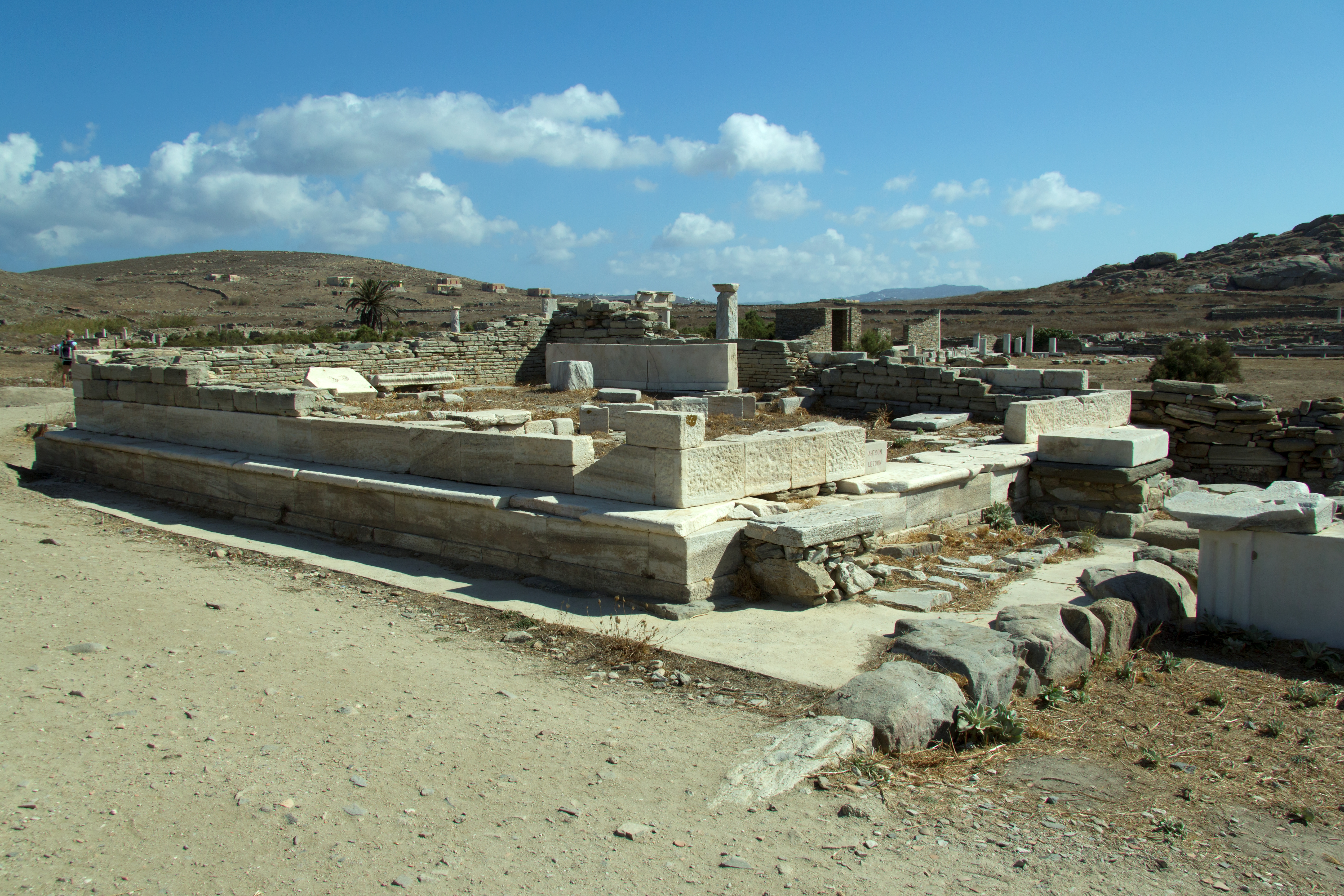 Temple of Leto (Letoon) in Delos, circa 550 BC.